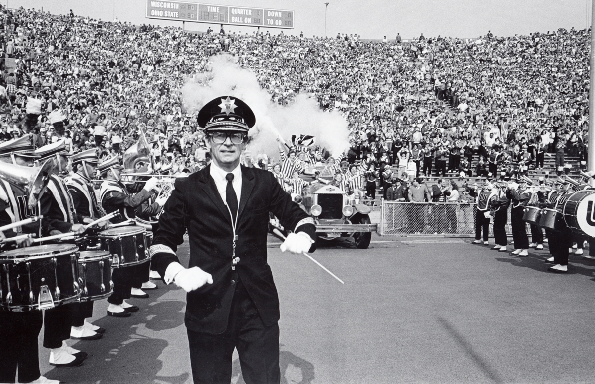 UW Band with Mike Leckrone. Madison, Wisconsin. n: 1970/1979. Image ID# S06289. For more information about this image or UW-Madison campus history, .